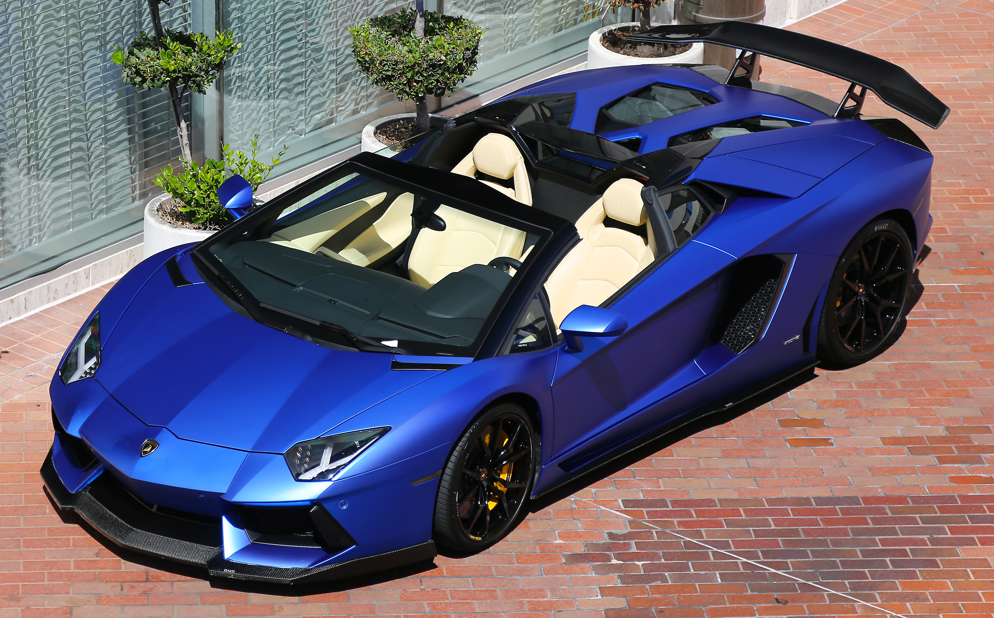 The sickest Aventador Roadster on the planet